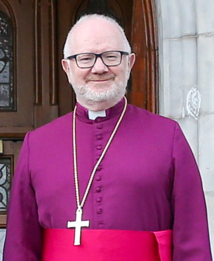 Eamon Martin, Prince Charles, and Richard Clarke in front of St Patrick's Cathedral, Armagh